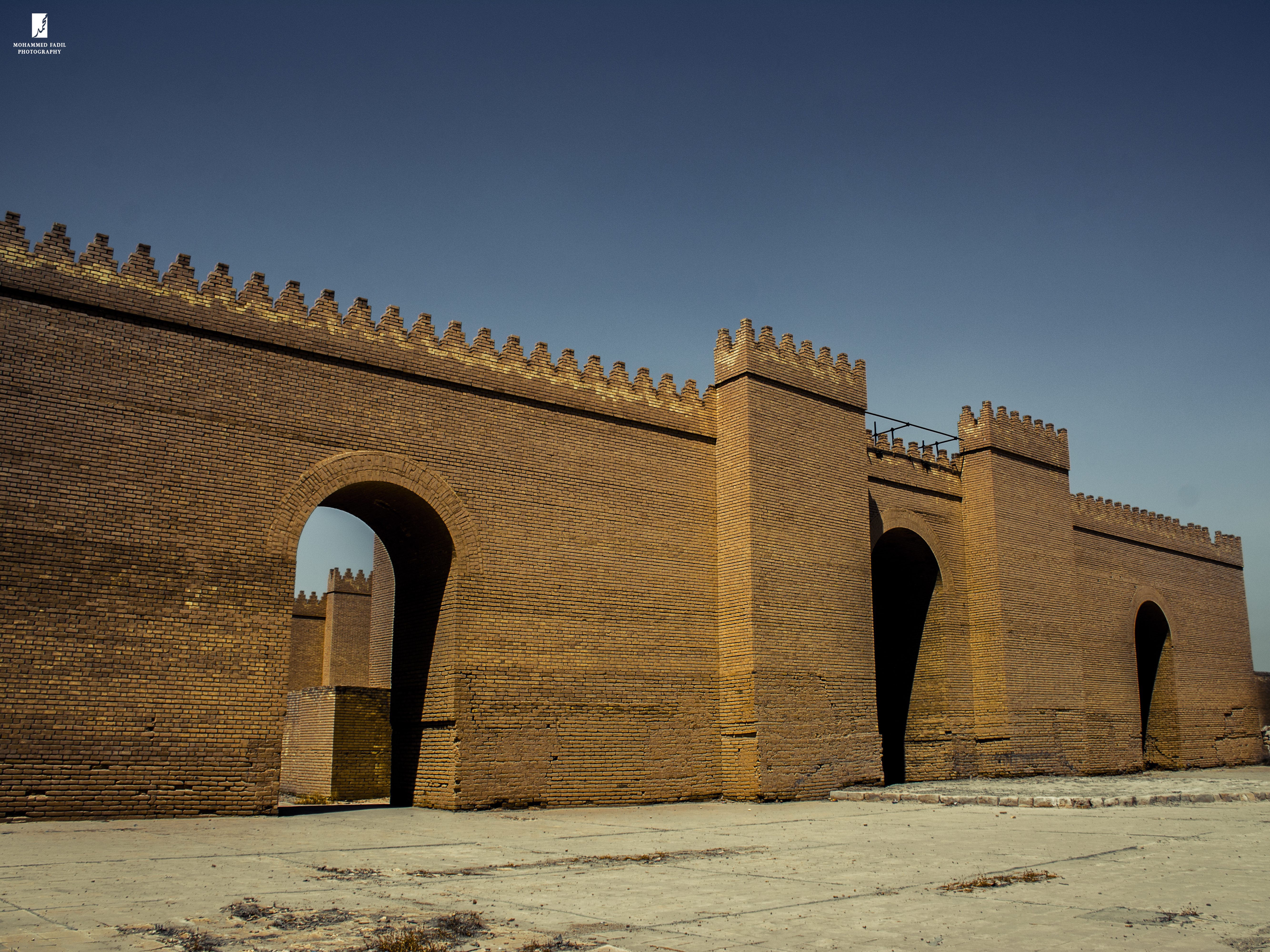 Ruins of the ancient city of Babylon Al-Hillah, Mesopotamia (Irak). S. VIII b.C - S.V b.C.